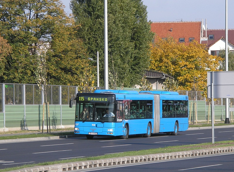 Zagreb bus on line 115